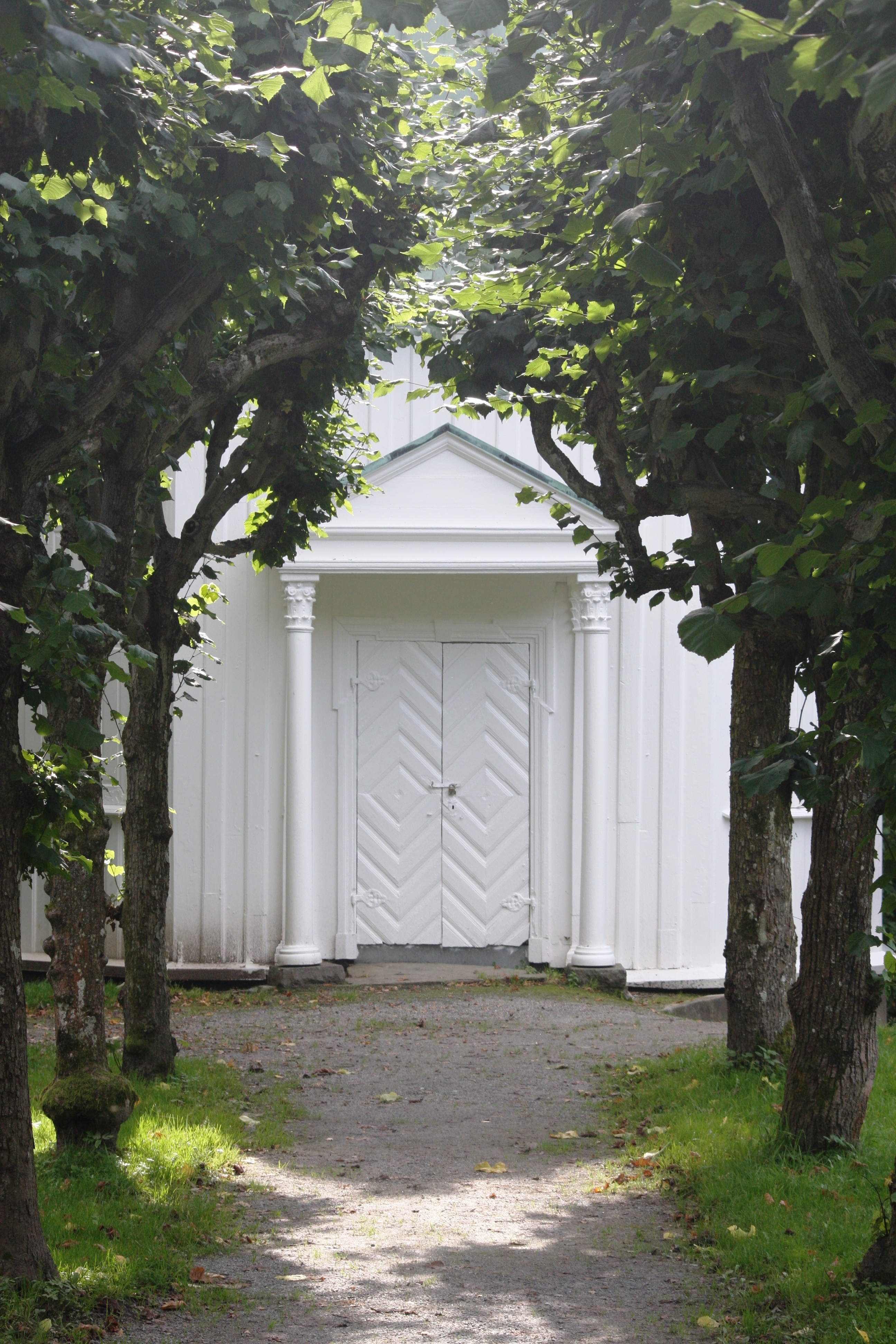 Röd herregaard (Röd manor( in the city of Halden, Norway. It belonged to the Anker family, and was visited by Thomas Robert Malthus in 1799.